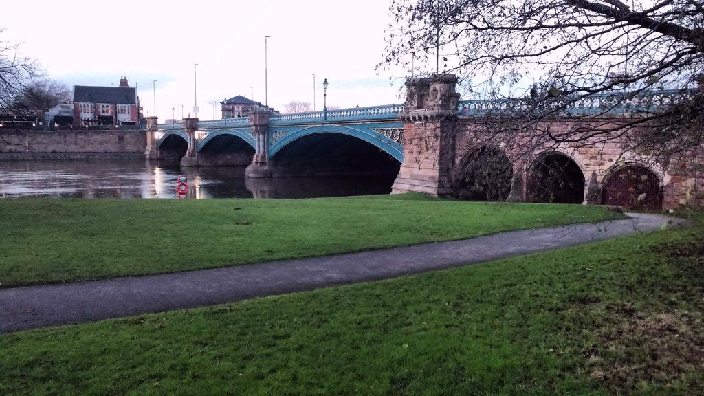 A Picture of Trent Bridge, in West Bridgford, Nottingham, UK